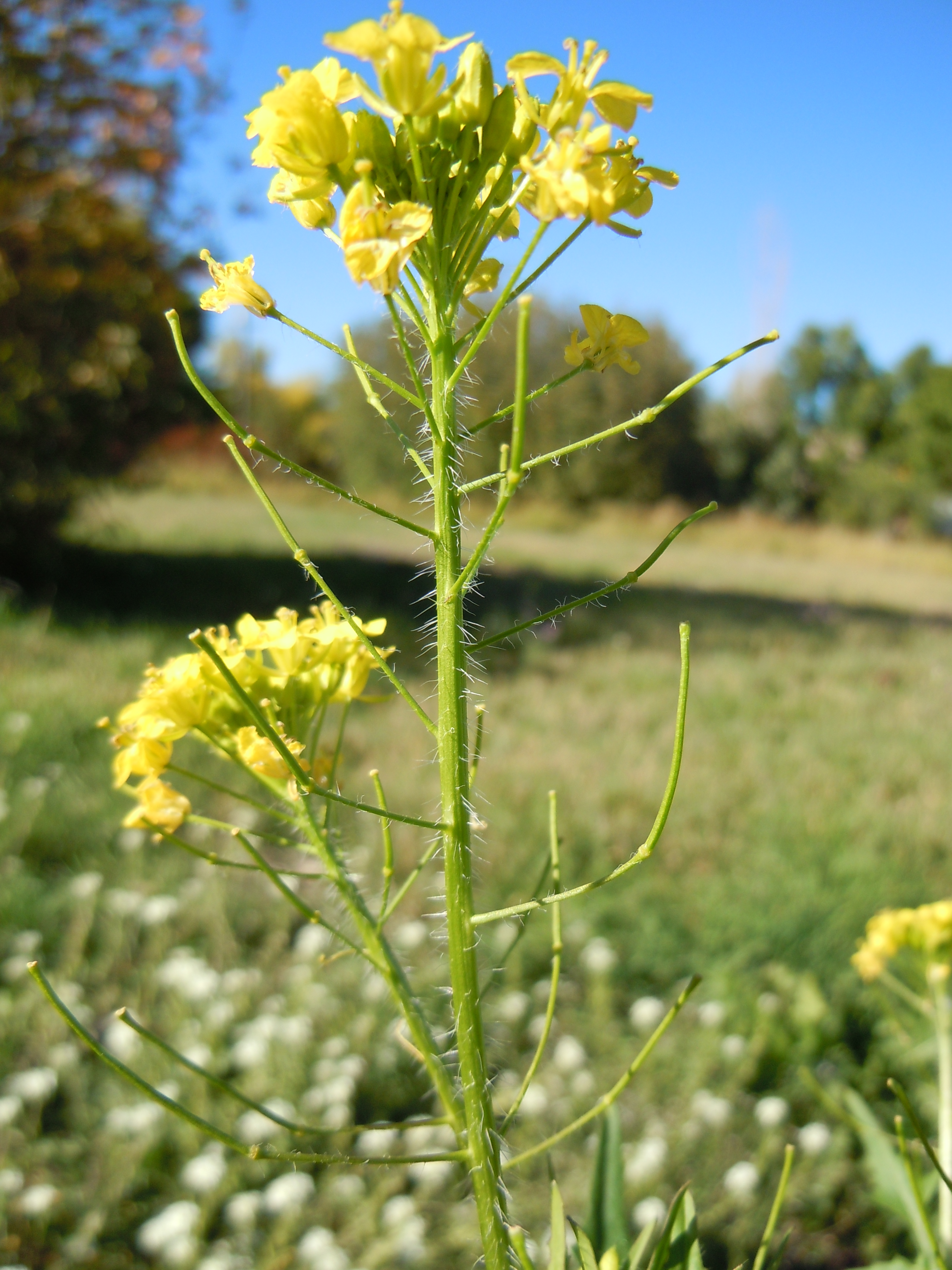 Sisymbrium loeselii is the most common tumble mustered in the Bozeman area.